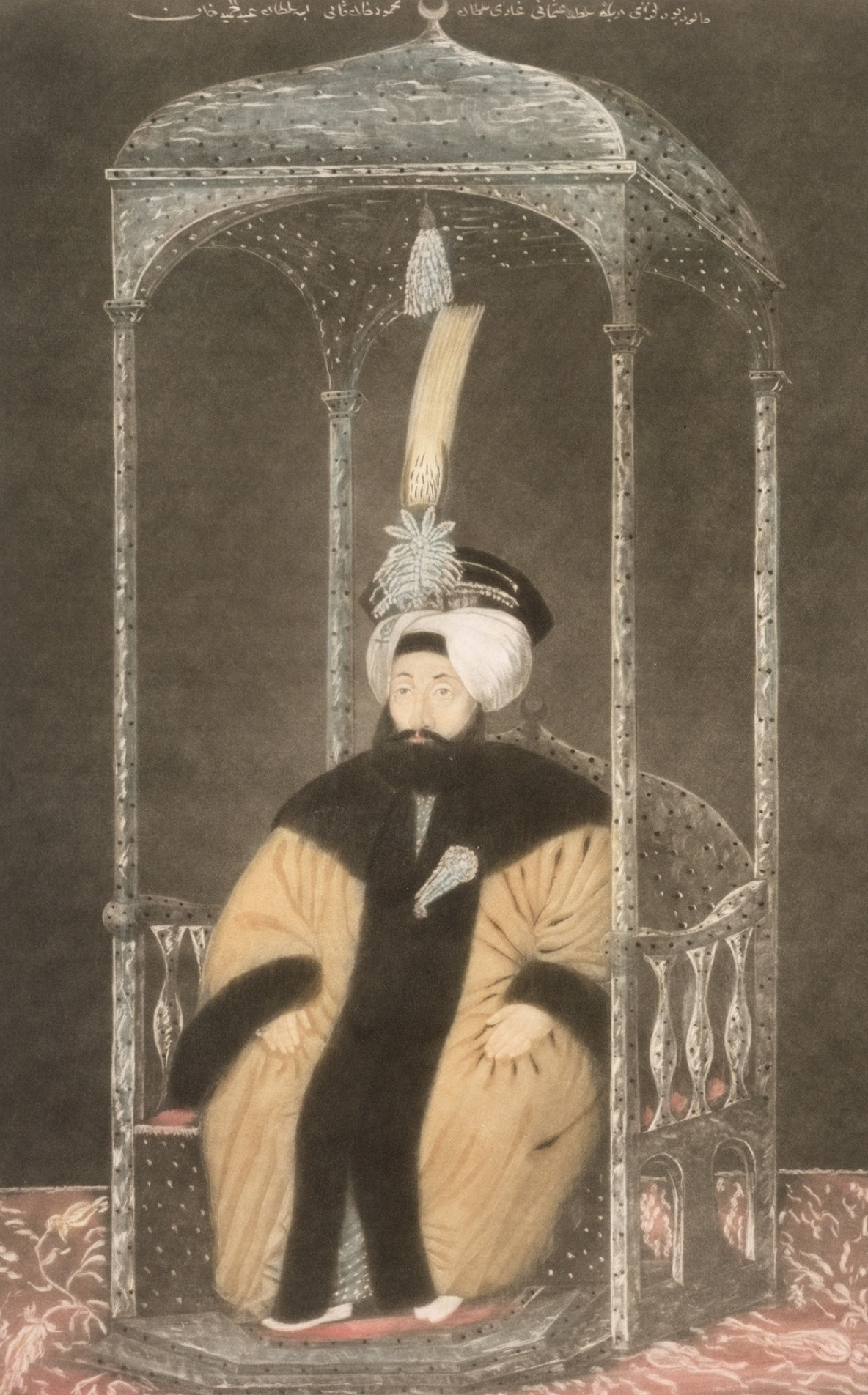 Portrait of Mahmud II, Sultan of the Ottoman Empire (1808-1839). The portrait has been printed using the Giclée process.